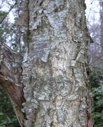 Bark of a Wild Service Tree (Sorbus torminalis)